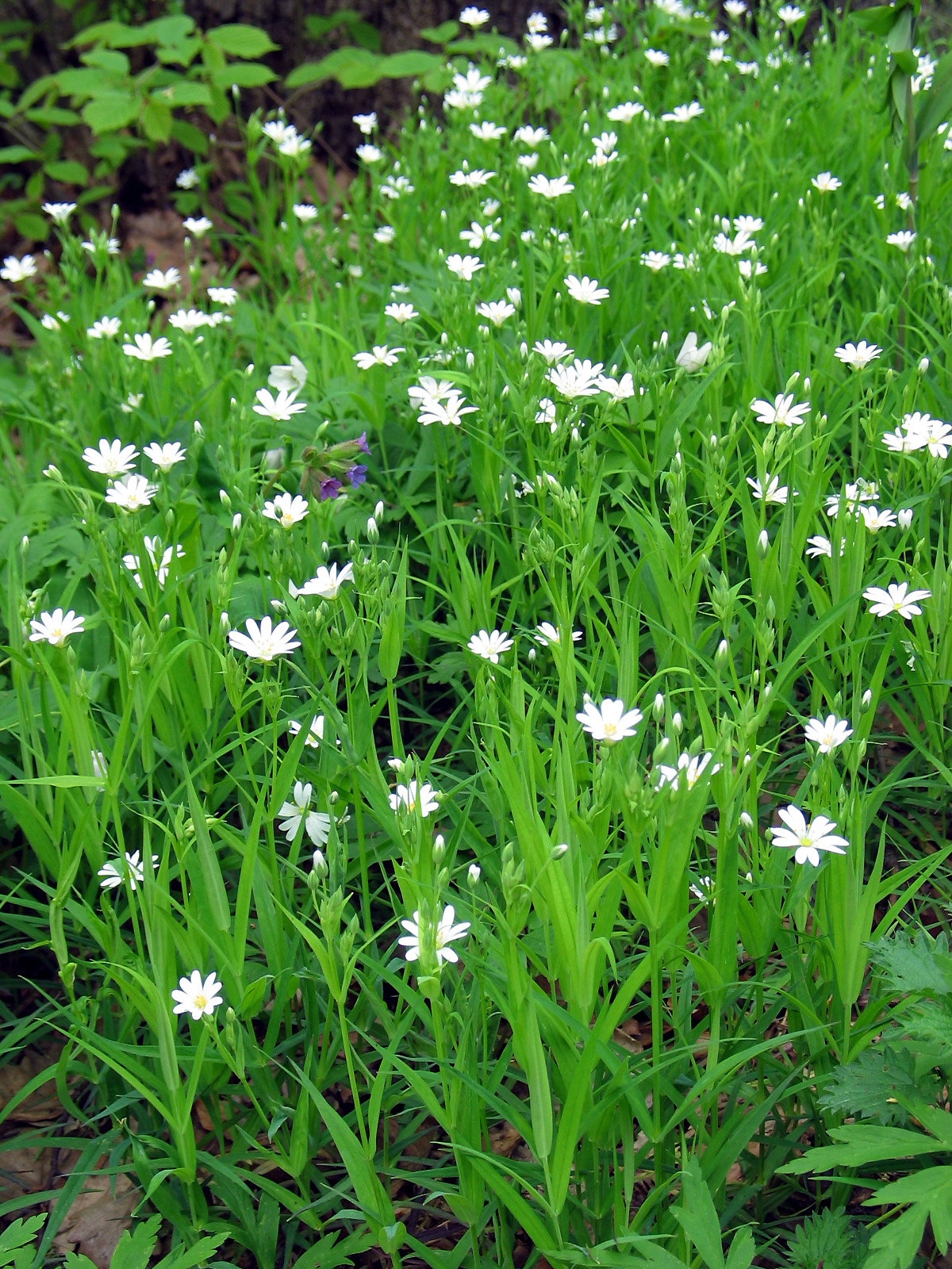 Addersmeat (Stellaria holostea) in Bielany-Tyniec Landscape Park, Cracow, Poland.